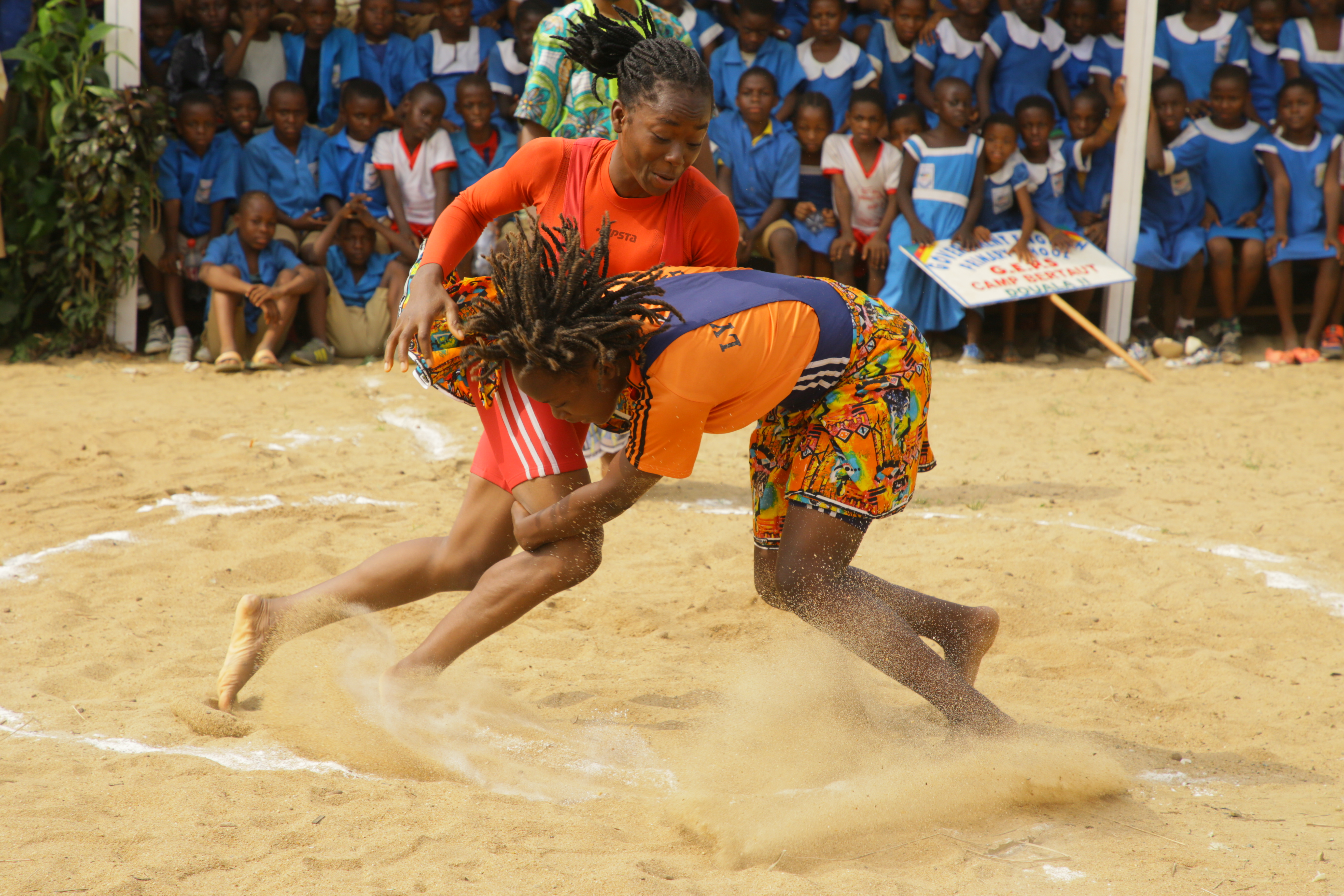 This is an image with the theme "Play" from: Cameroon